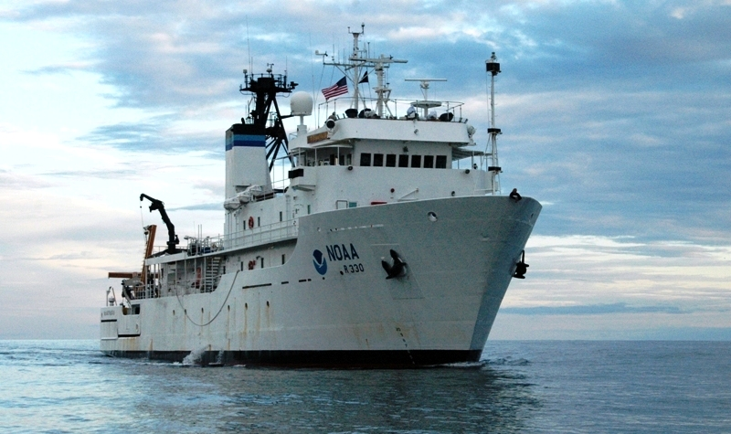 National Oceanic and Atmospheric Administration oceanographic research ship NOAAS McArthur II (R 330)